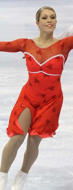 Sarah Arnold and Justin Trojek at the 2011 Canadian Figure Skating Championships